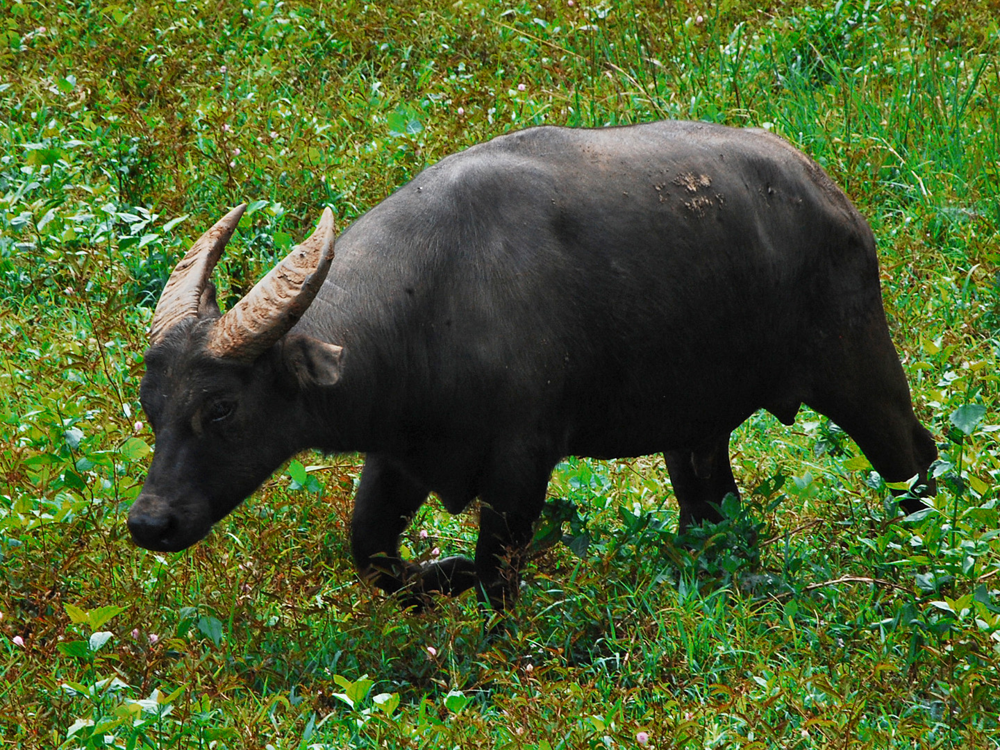 A tamaraw bull (Bubalus mindorensis) crossing a grassy field. Adult bulls are locally called toro and are rightly respected for their size and surprising agility. Taken by Gregg Yan in 2012 at the Mount Iglit-Baco National Park in Occidental Mindoro Province, Philippines.Tagalog: Isang barakong tamaraw (Bubalus mindorensis).